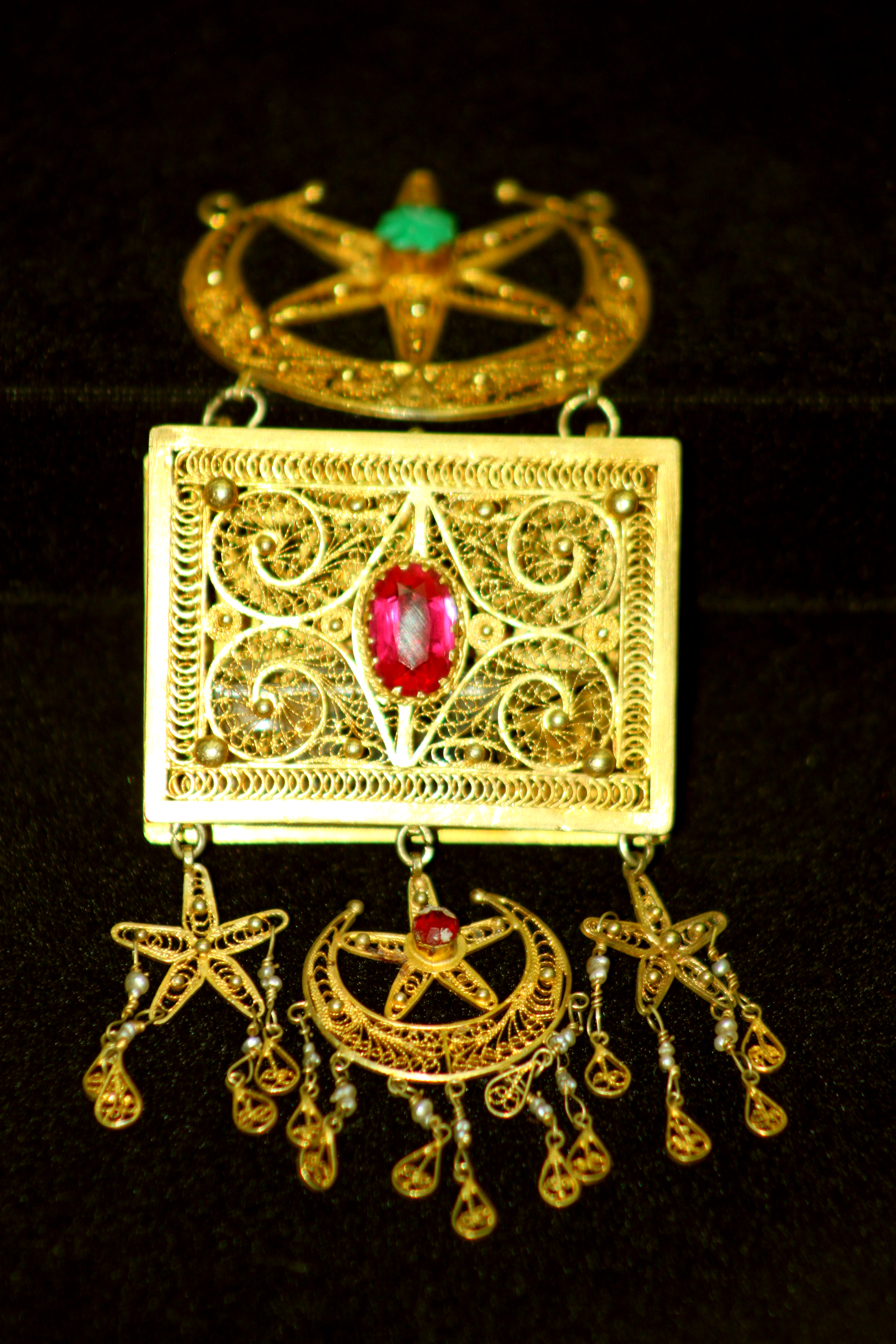 Quranqabı-boyunbağı, şəbəkə texnikası, qızıl, yaqut, firuzə, almaz